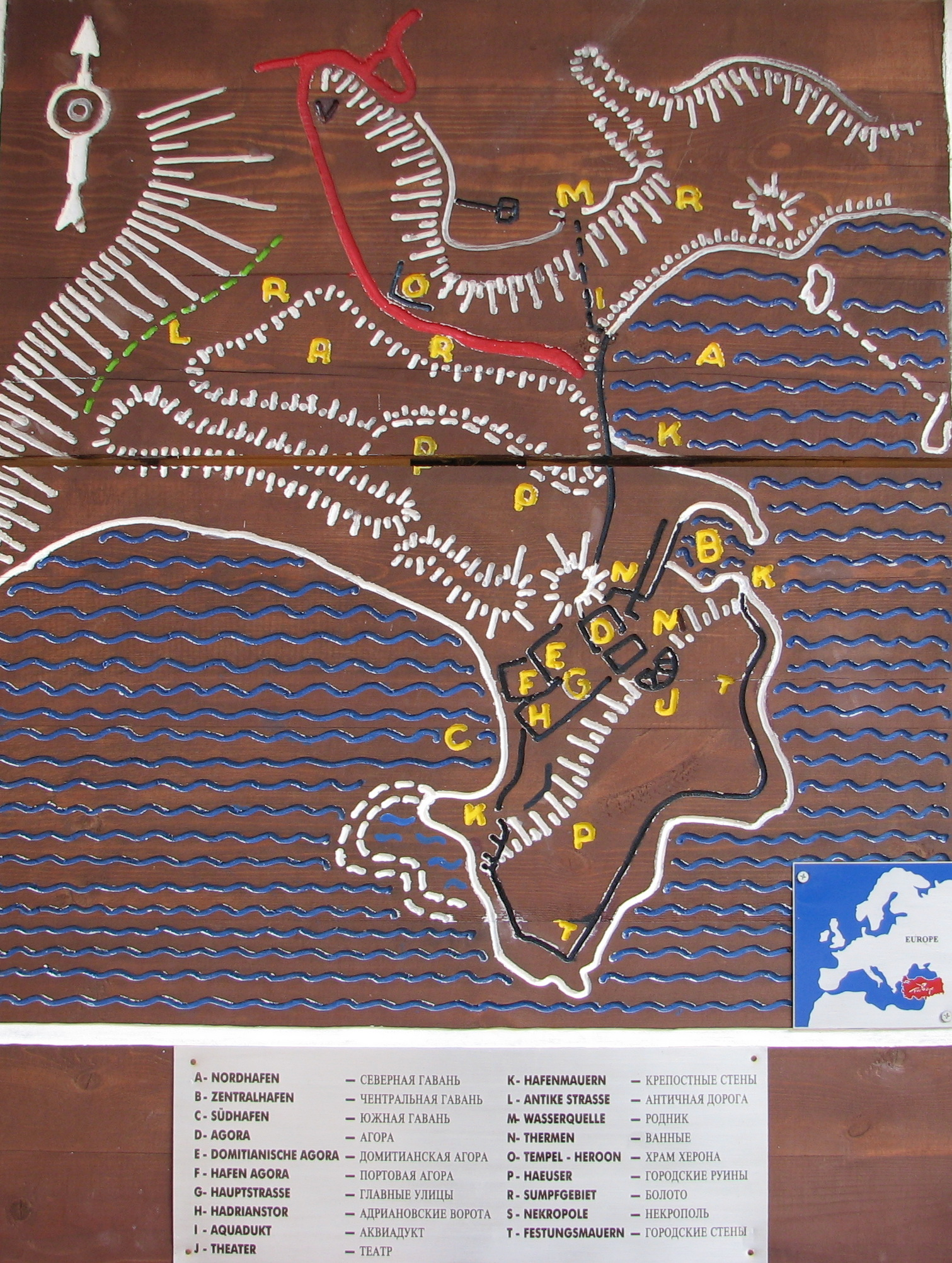 Map of Phaselis